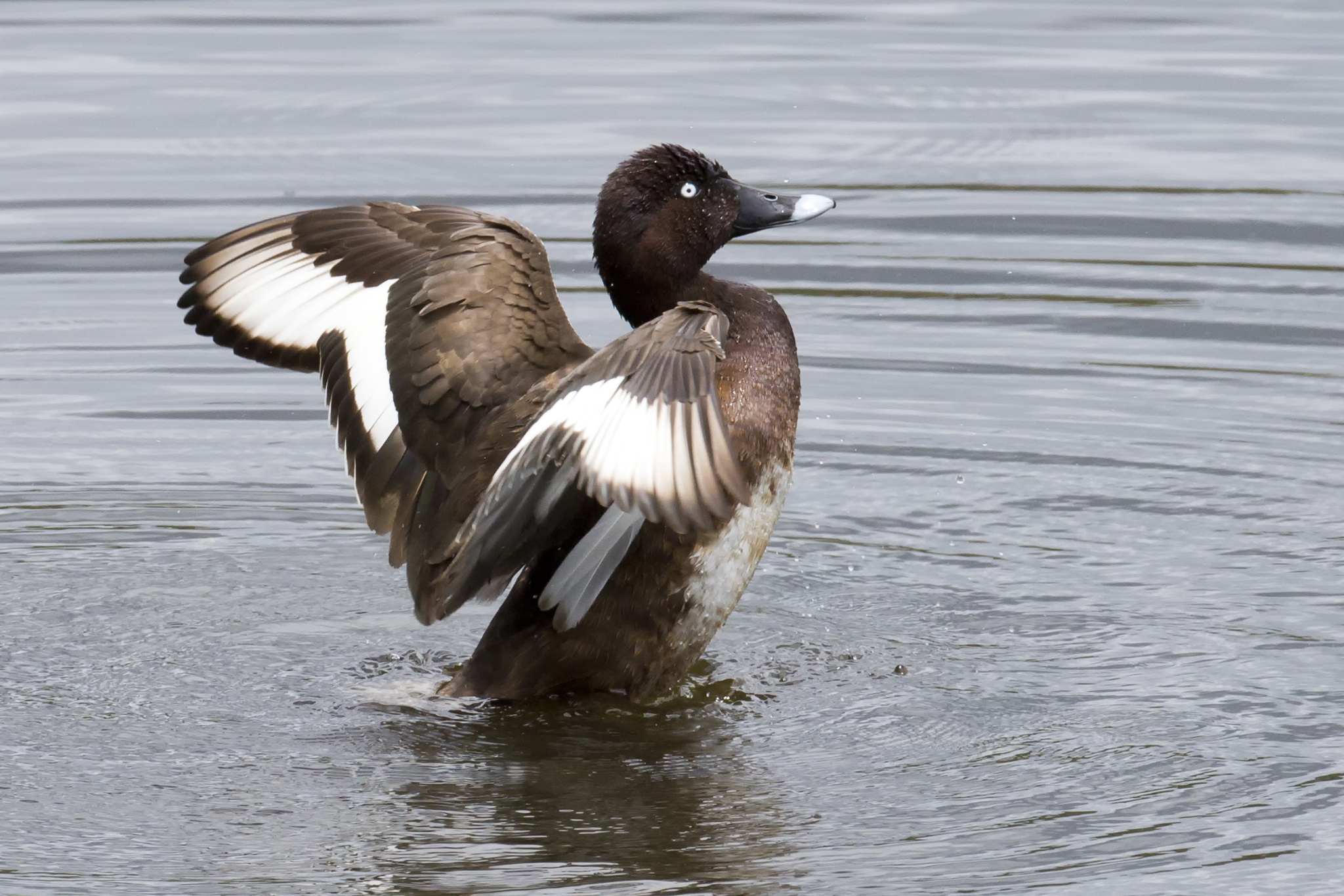 Adult male of Hardhead (Aythya australis) at Hasties Swamp National Park, North Queensland